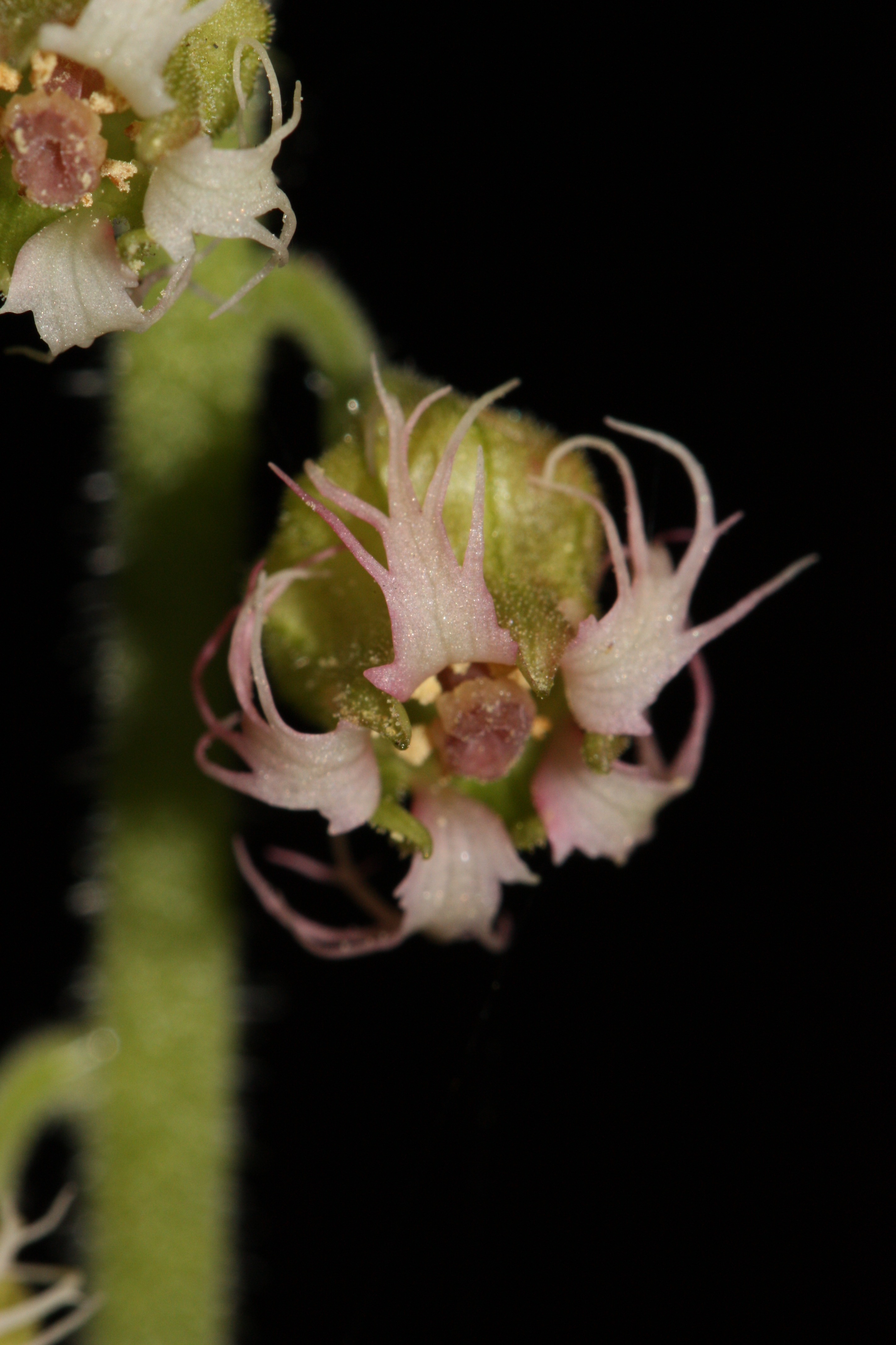 Bigflower Tellima, Fringecup, Fragrant Fringecup